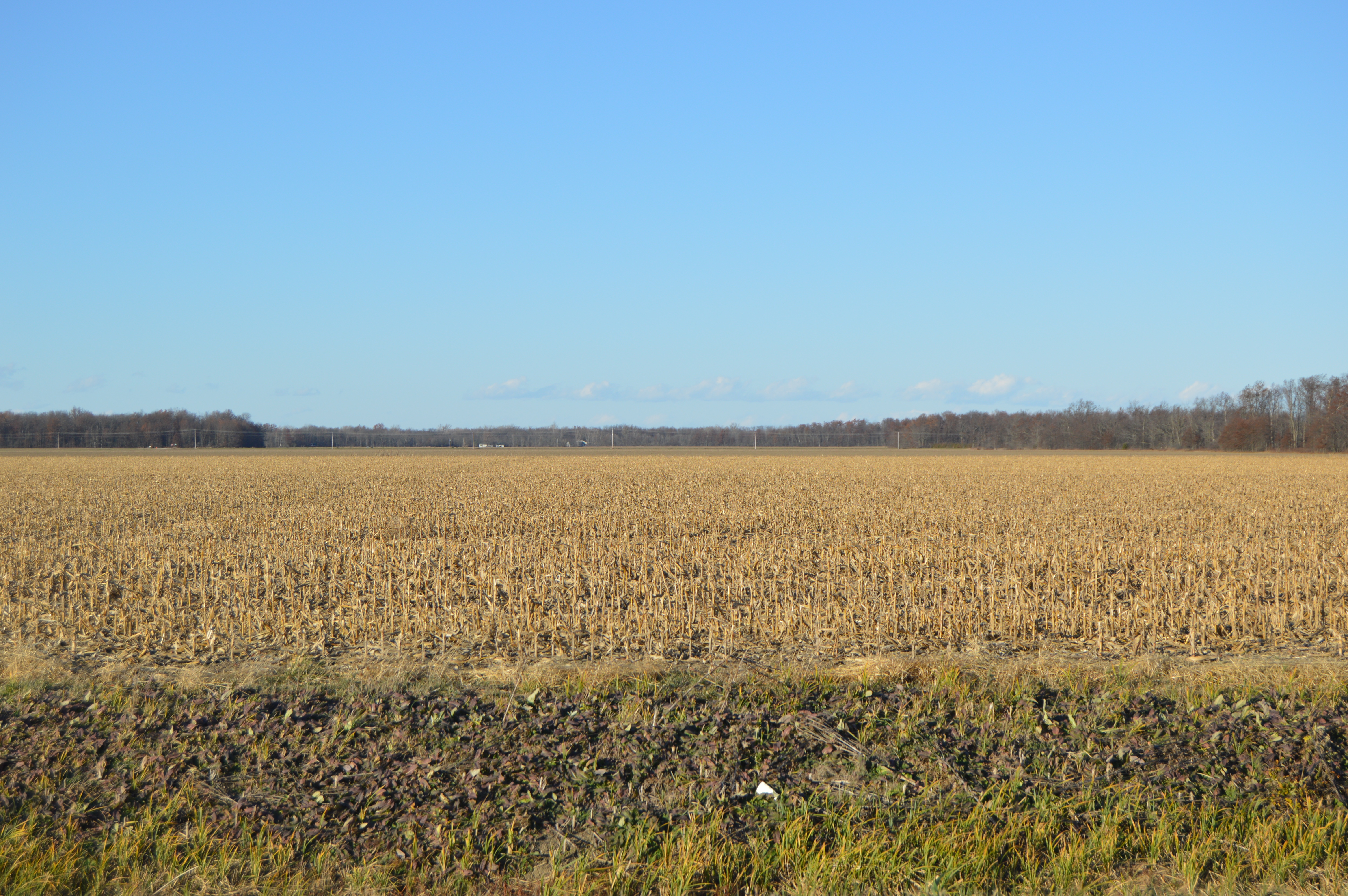 Harvested cornfields on the northern side of State Route 613 east of Road 165 in Brown Township, Paulding County, Ohio, United States.